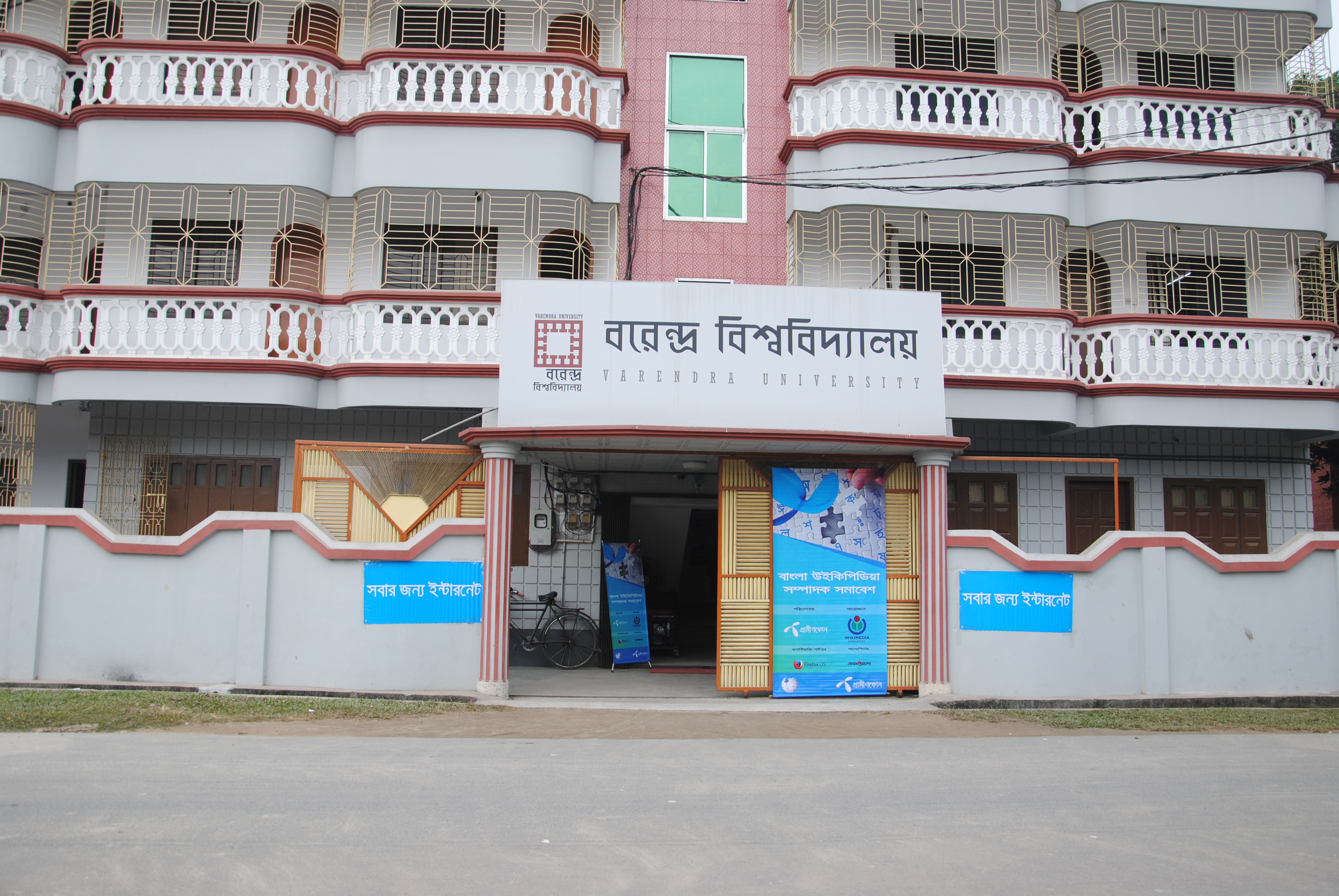 Varendra University